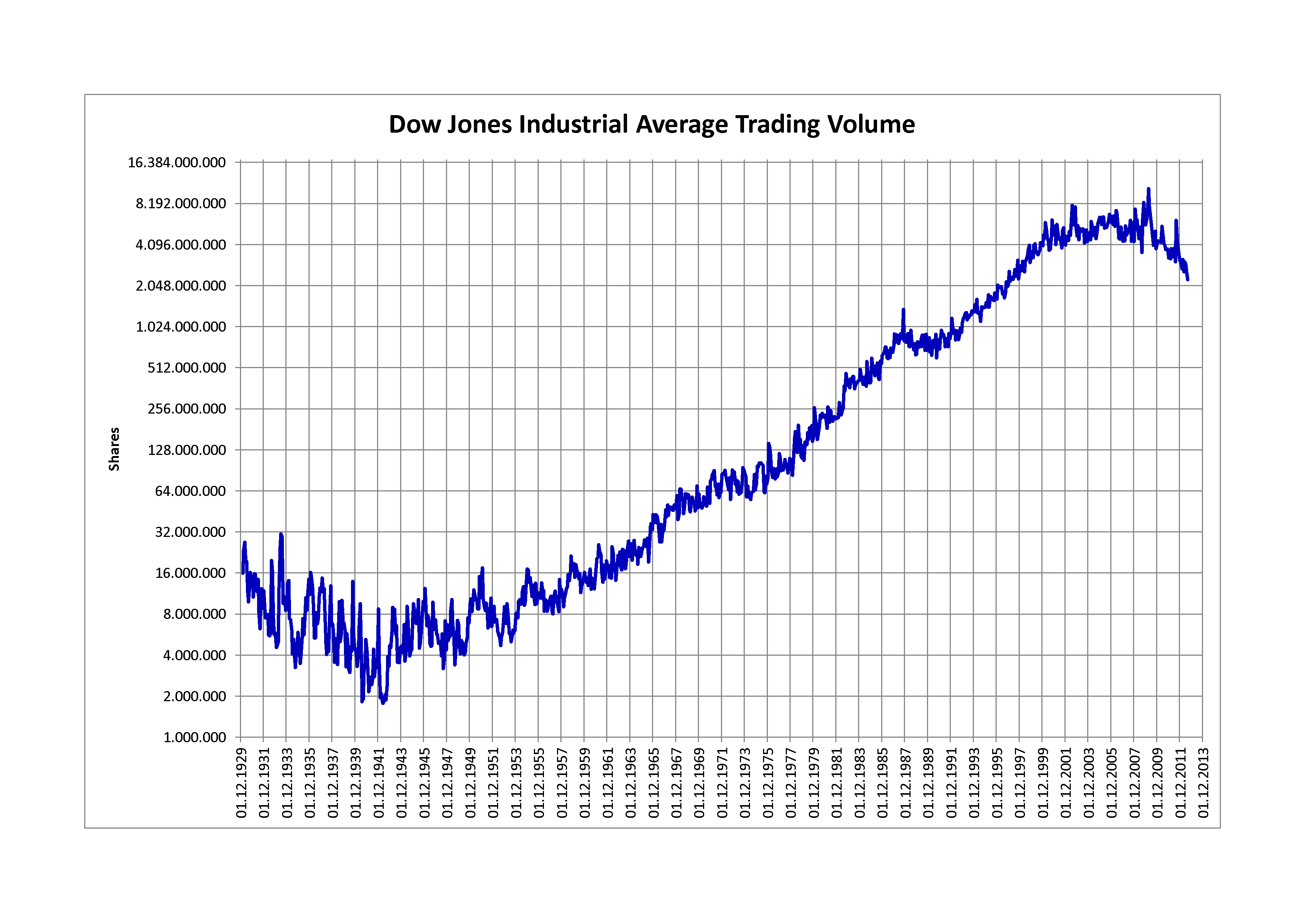 Dow Jones Industrial Average monthly trading volume in shares from December 1929 to August 2012